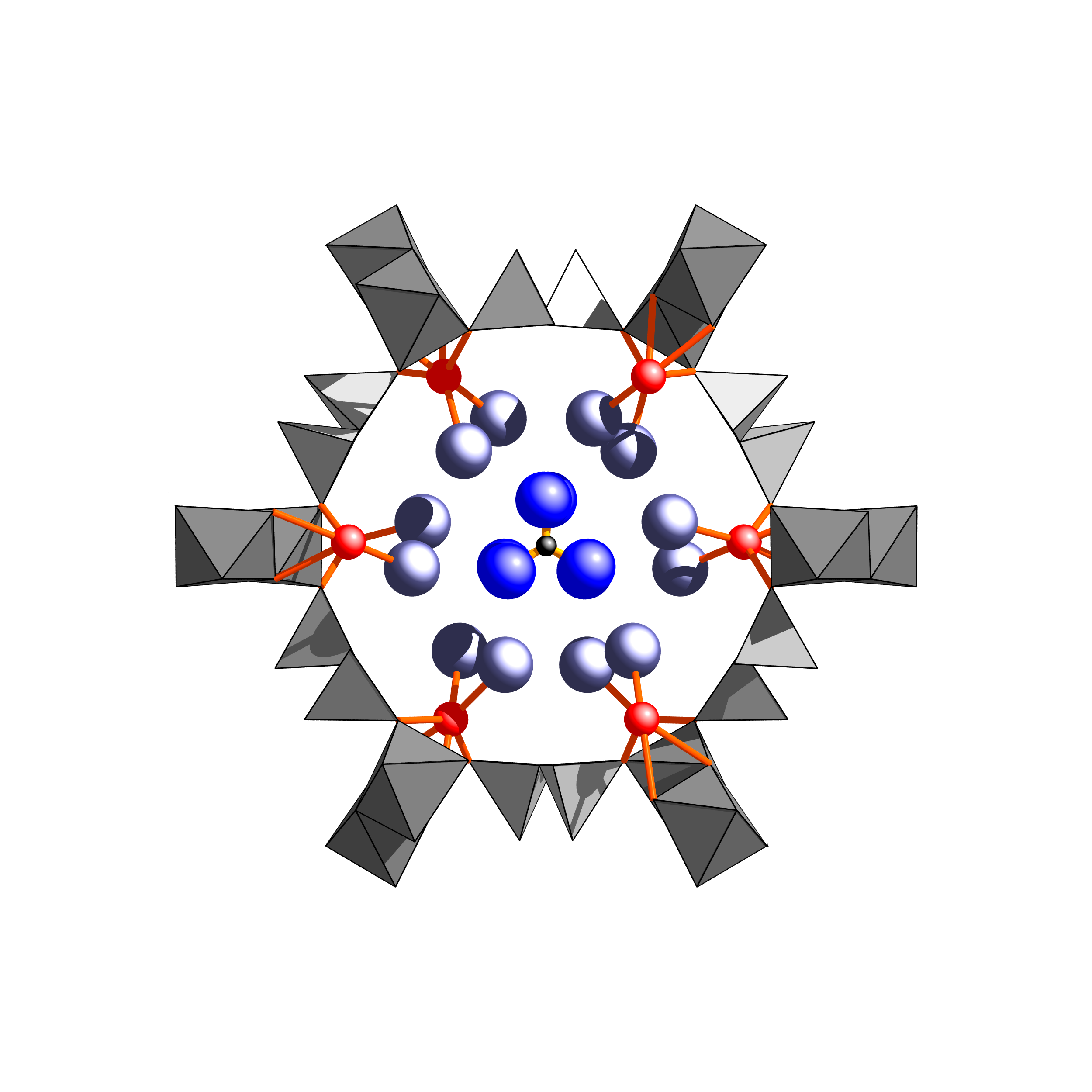 part of aerinite structure: CO3 and H2O in channel viewed down the c-axis blue: oxygen violet: H2O black: carbon red: calcium